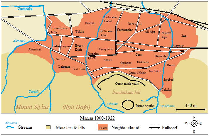 The town of Manisa, Turkey before the fire of 1922. Used the maps and information of (Manisa şehrinde mahallelerin tarihsel gelişimi, author=Mehmet Karakuyu) page 14.